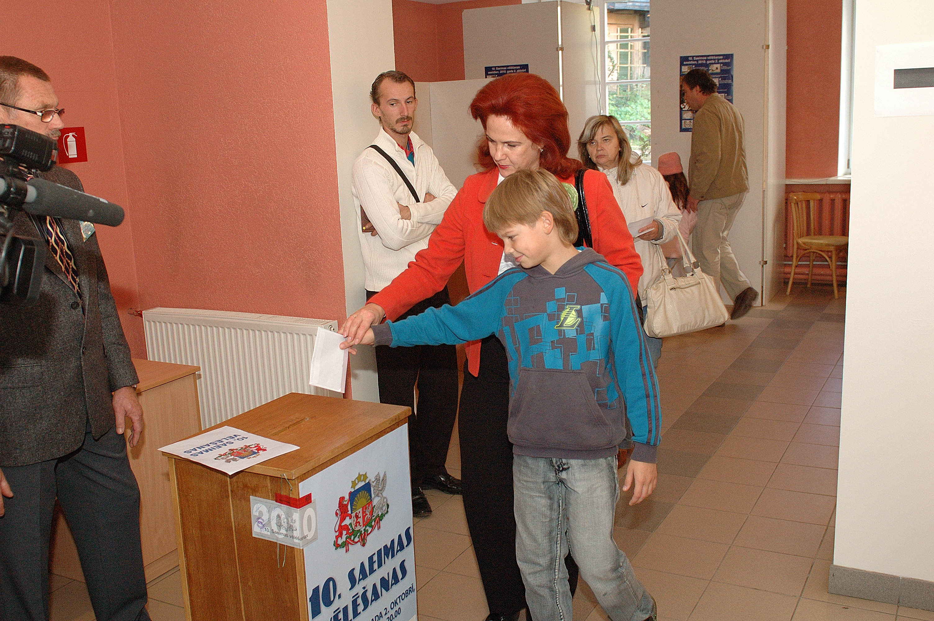 Solvita Āboltiņa votes in the Latvian parliamentary election, 2010 in Talsi.